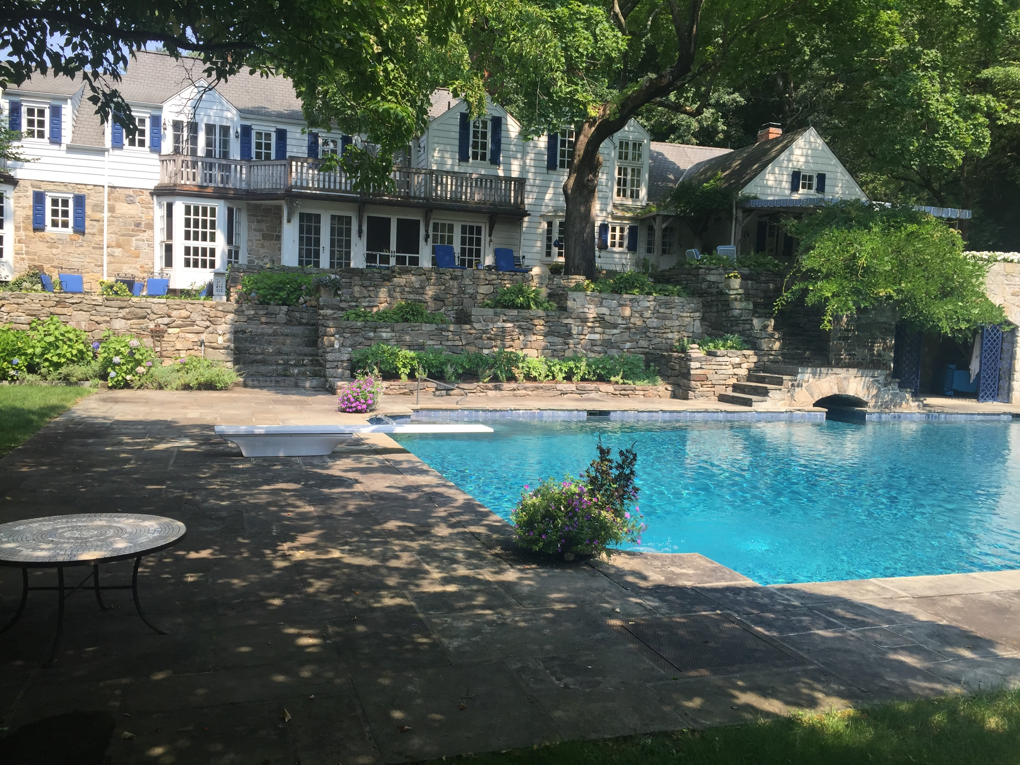 Alice's Connecticut home, with the pool's tunnel visible